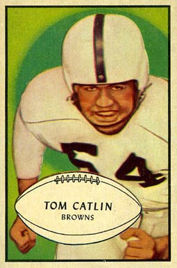 American football player Tom Catlin on a 1953 Bowman card.